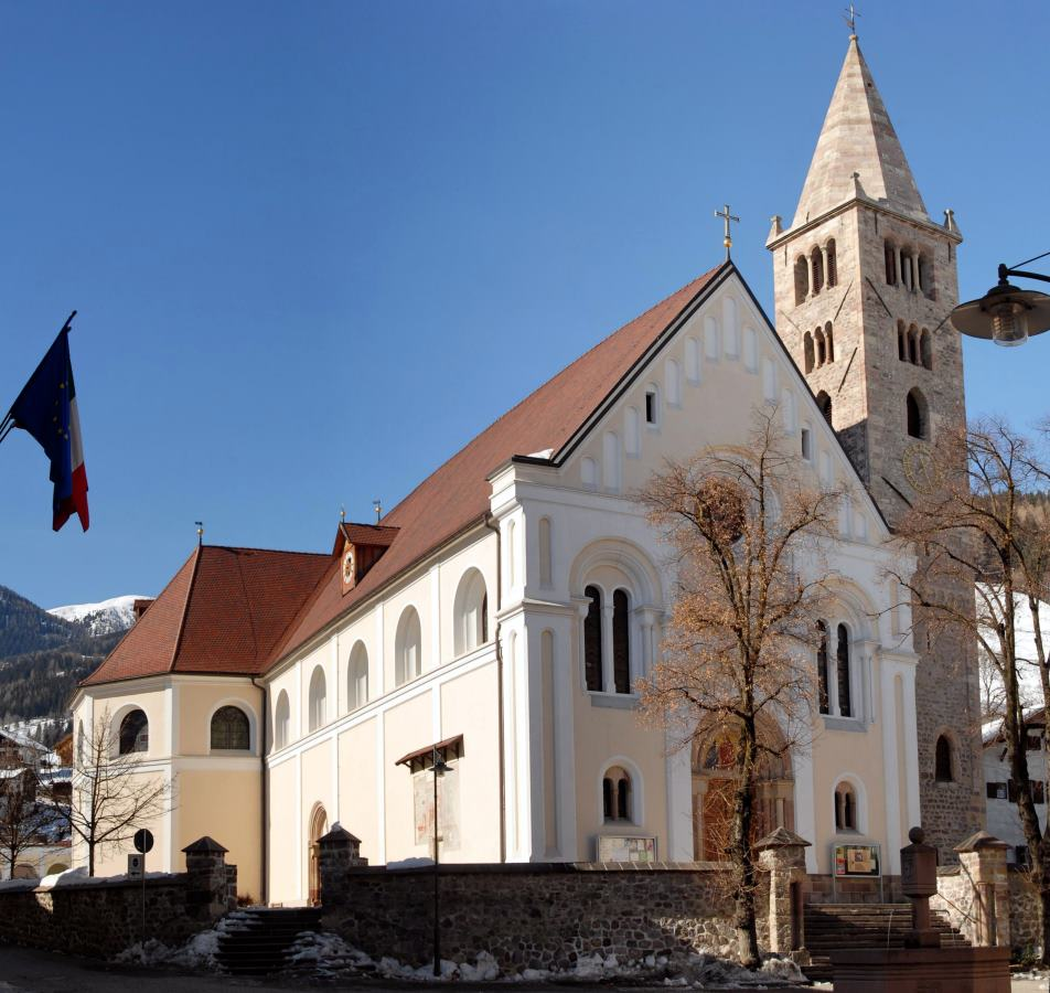 Village Sarnthein in Valley Sarntal: Parish Church